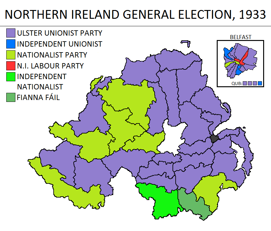 Map showing result of the 1933 Northern Ireland general election.